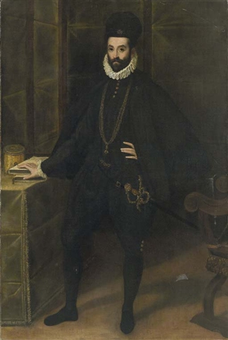 Portrait of a Gentleman